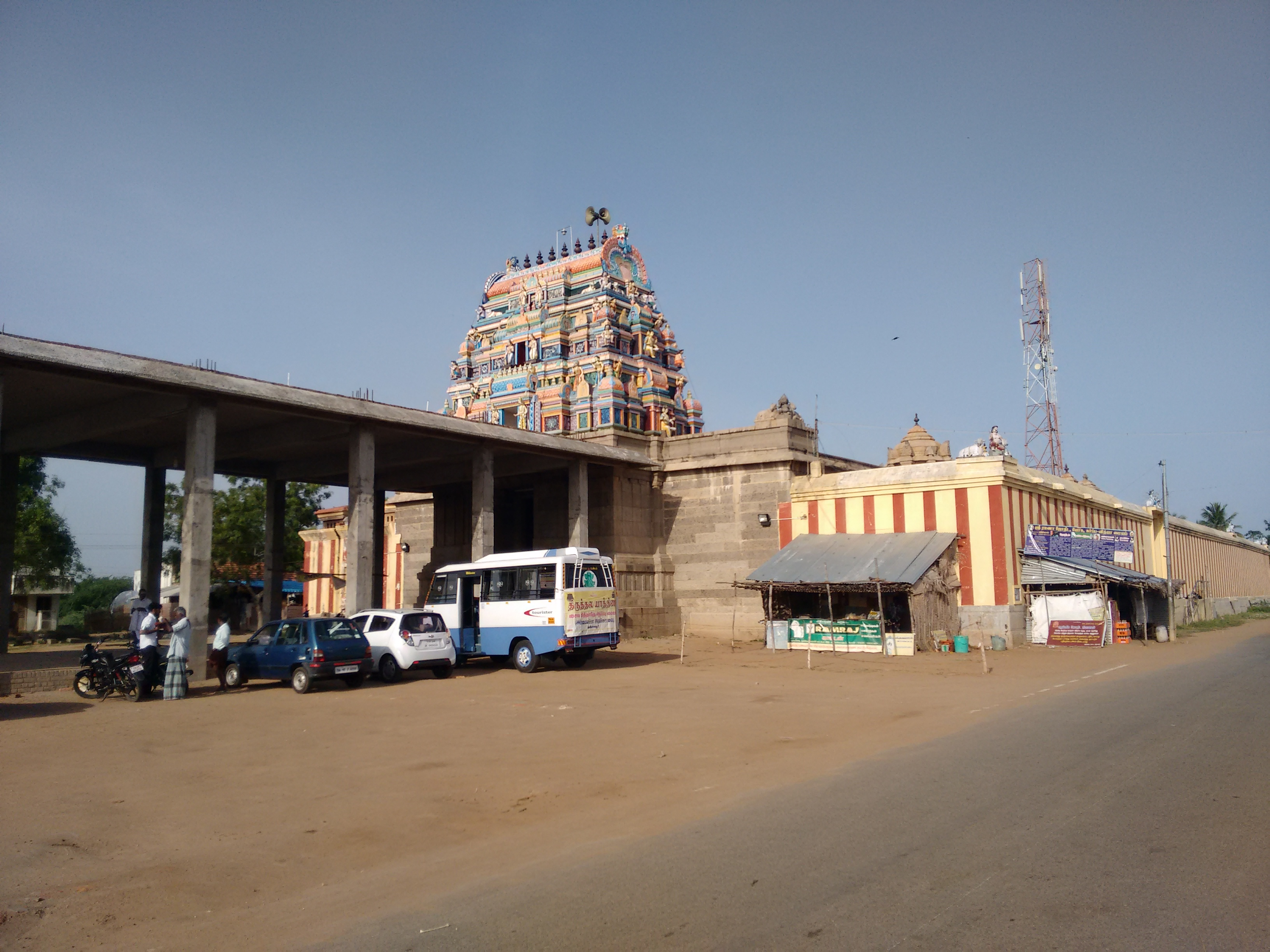 திடடை வசிஷ்டேஷ்வரர் கோயில் Thittai Vasisteswarar temple